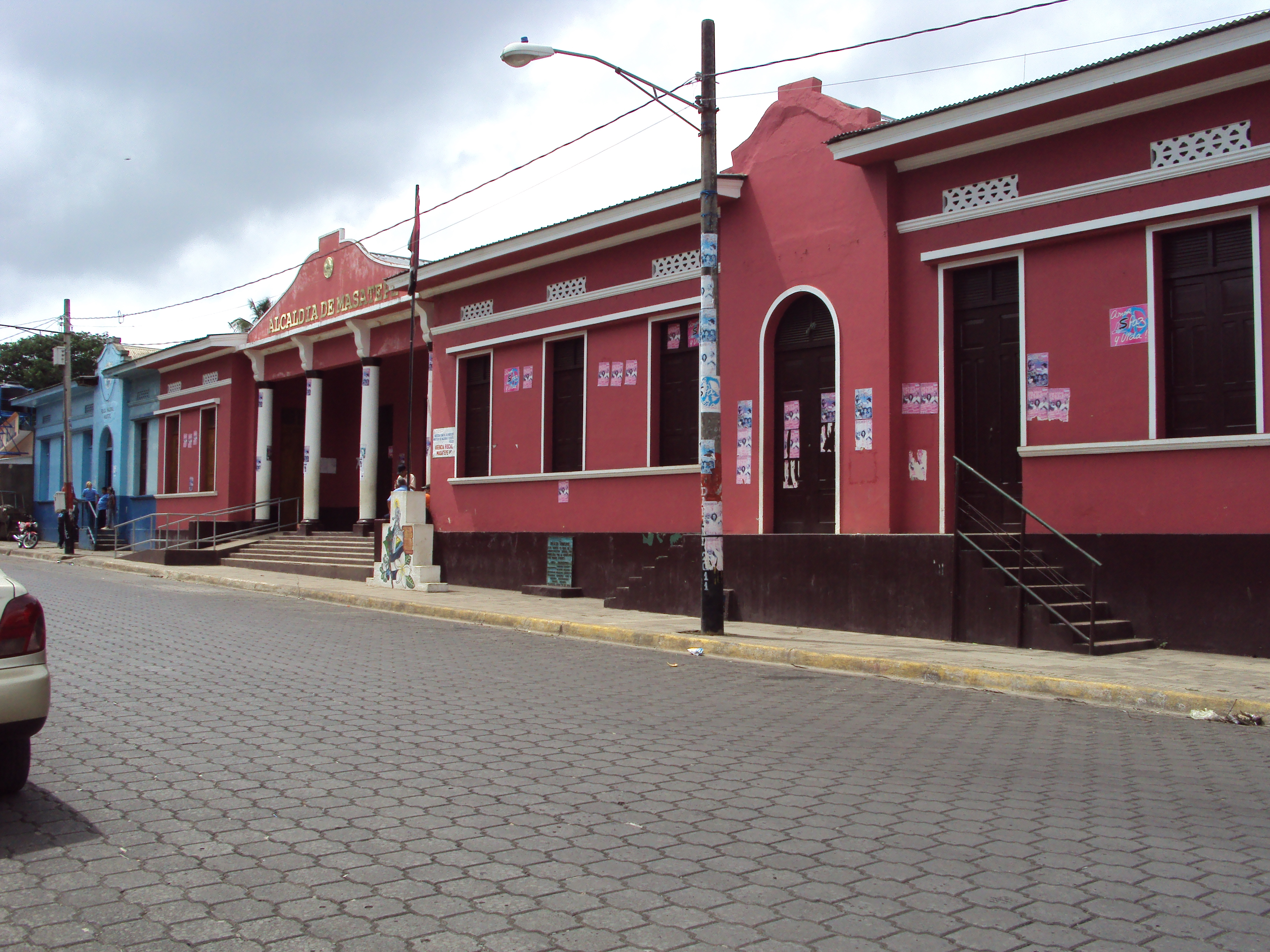 Town hall of Masatepe.